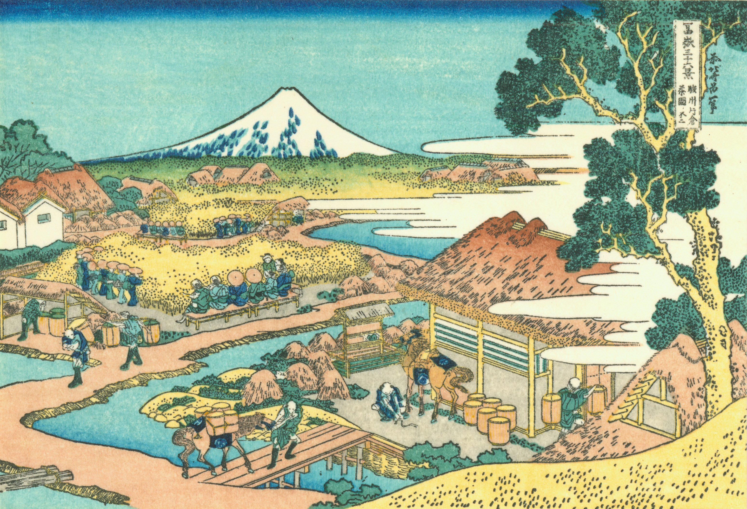 Part of the series Thirty-six Views of Mount Fuji, no. 30.